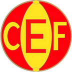 Historical badge of RCD Espanyol. Digitally enhanced and with alpha channel.